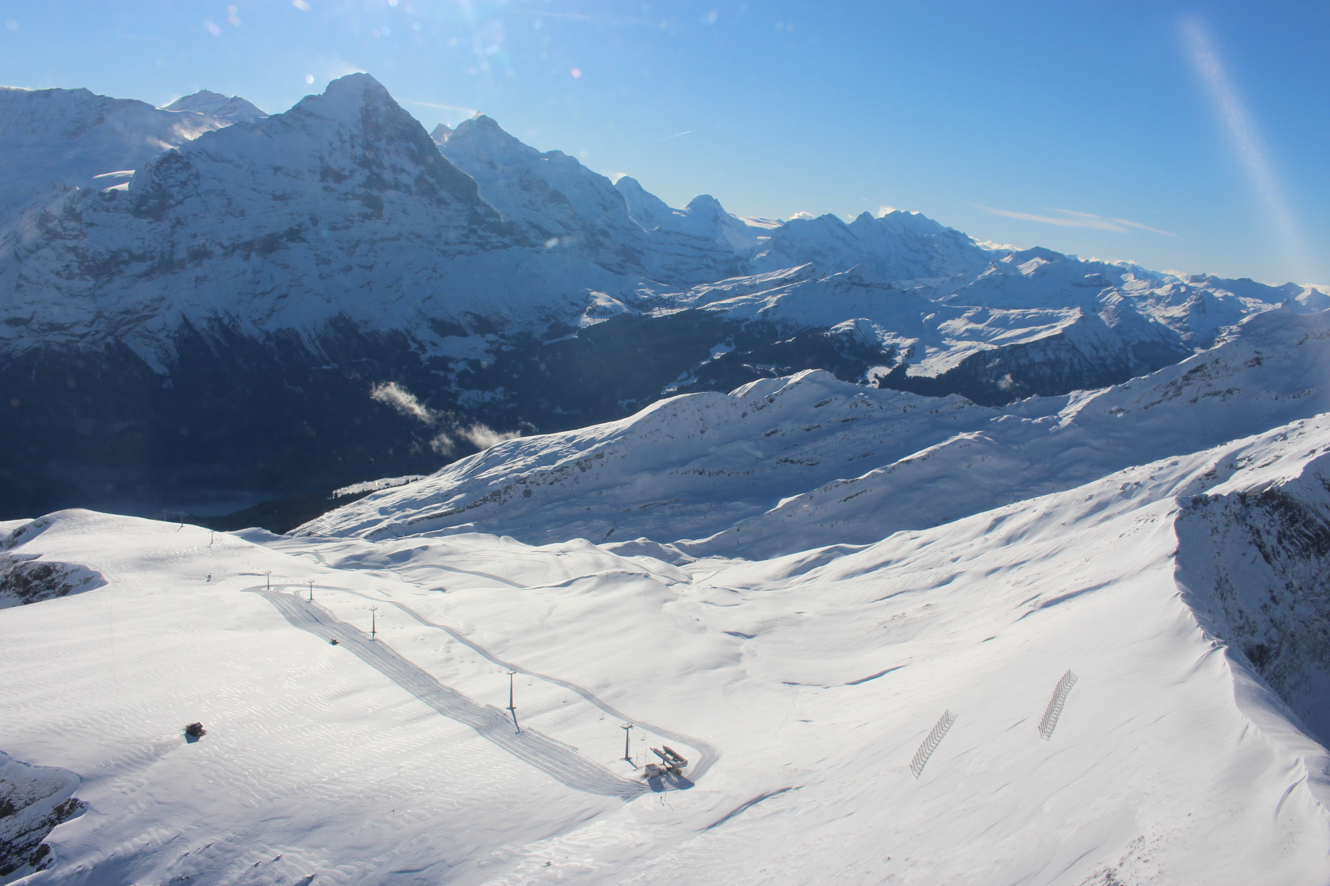 Photos of a helicopter flight around the Bernese Alps; start of the flight was in Lauterbrunnen.